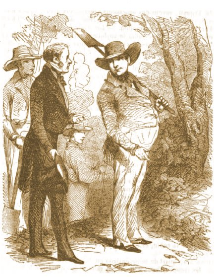 Napoleon at Saint Helena (gardening)